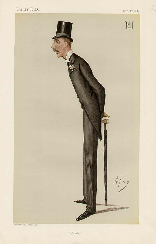 Sir Frederick Milner, 7th Baronet by Carlo Pellegrini